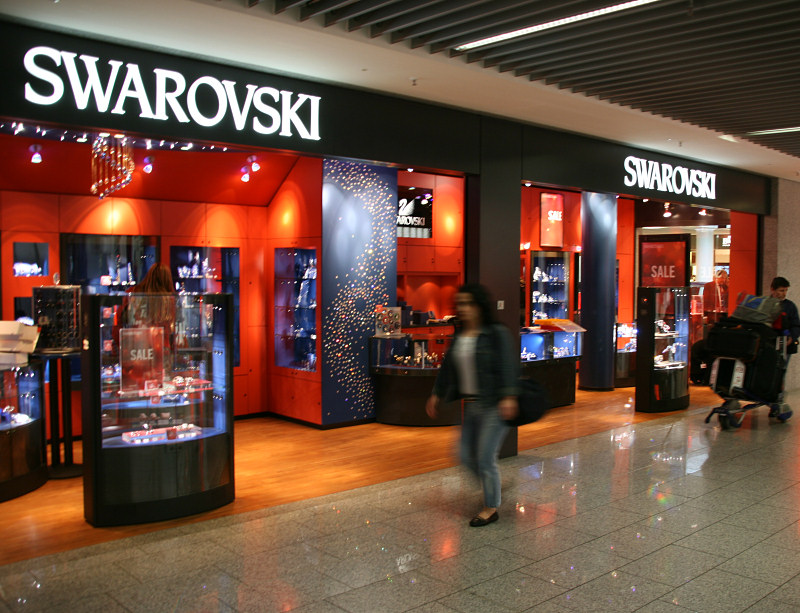 Swarovski store at Frankfurt International Airport.